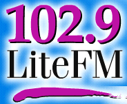 Former WLTE logo